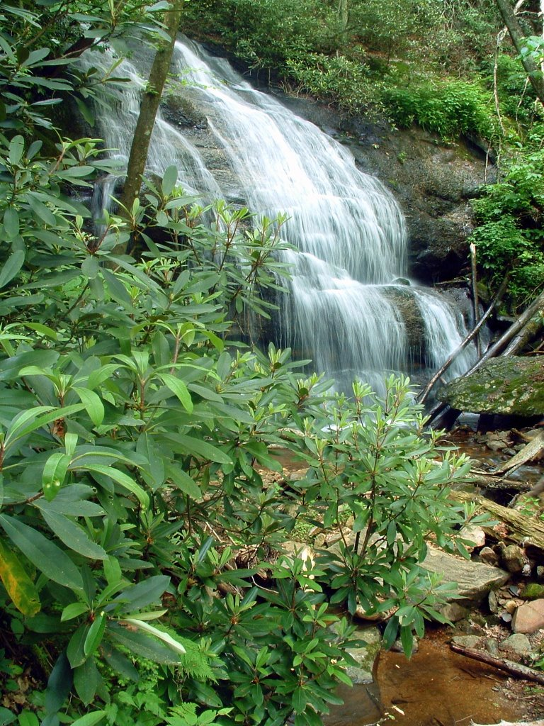 Waterfall on West Prong Hickey Fork Creek, Pisgah National Forest, Shelton Laurel area, Madison County, North Carolina.